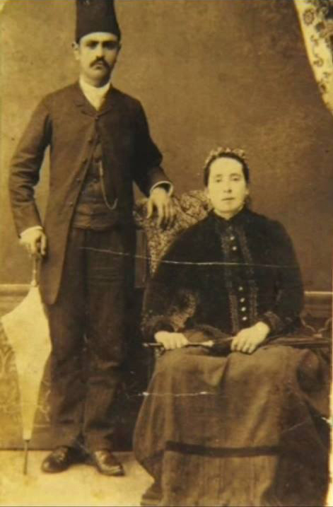 Grigor Mokreff, bulgarian teacher